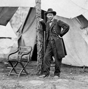 Ulysses S. Grant This work is in the public domain in its country of origin and other countries and areas where the copyright term is the author's life plus 70 years or less. You must also include a United States public domain tag to indicate why this work is in the public domain in the United States. Note that a few countries have copyright terms longer than 70 years: Mexico has 100 years, Jamaica has 95 years, Colombia has 80 years, and Guatemala and Samoa have 75 years. This image may not be in the public domain in these countries, which moreover do not implement the rule of the shorter term. Côte d'Ivoire has a general copyright term of 99 years and Honduras has 75 years, but they do implement the rule of the shorter term. Copyright may extend on works created by French who died for France in World War II (more information), Russians who served in the Eastern Front of World War II (known as the Great Patriotic War in Russia) and posthumously rehabilitated victims of Soviet repressions (more information). This file has been identified as being free of known restrictions under copyright law, including all related and neighboring rights.